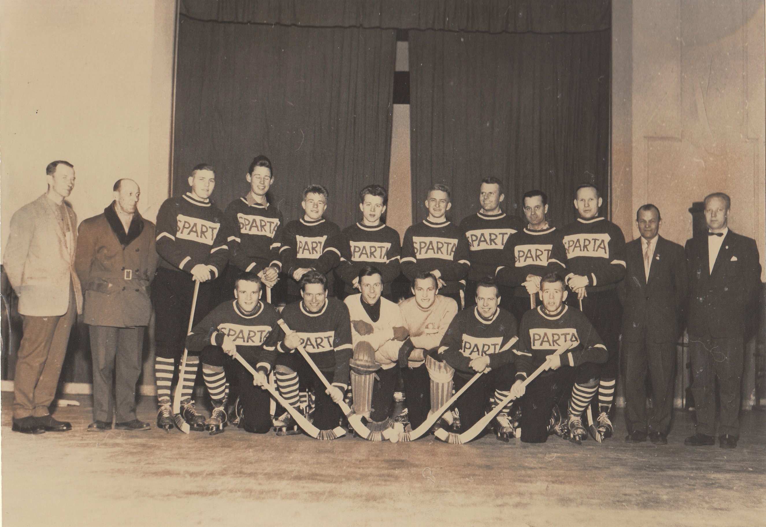 Sparta, Drammen bandy team. Finalists in the norwegian bandy championship 1962.